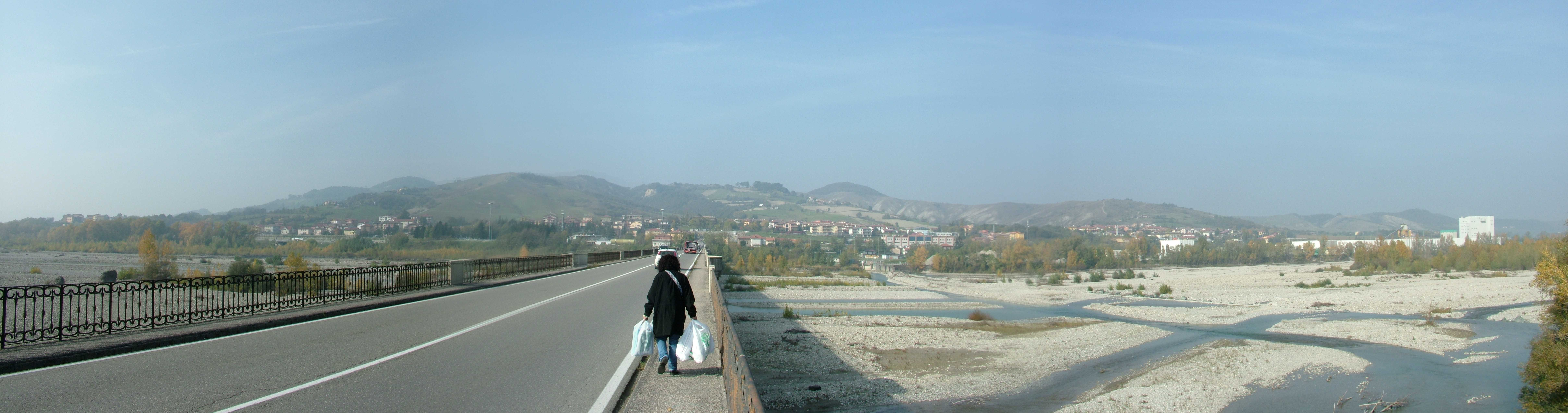 View of Ramiola, municipality of Medesano, Province of Parma, Italy, from the bridge on the Taro river on the side of Fornovo di Taro